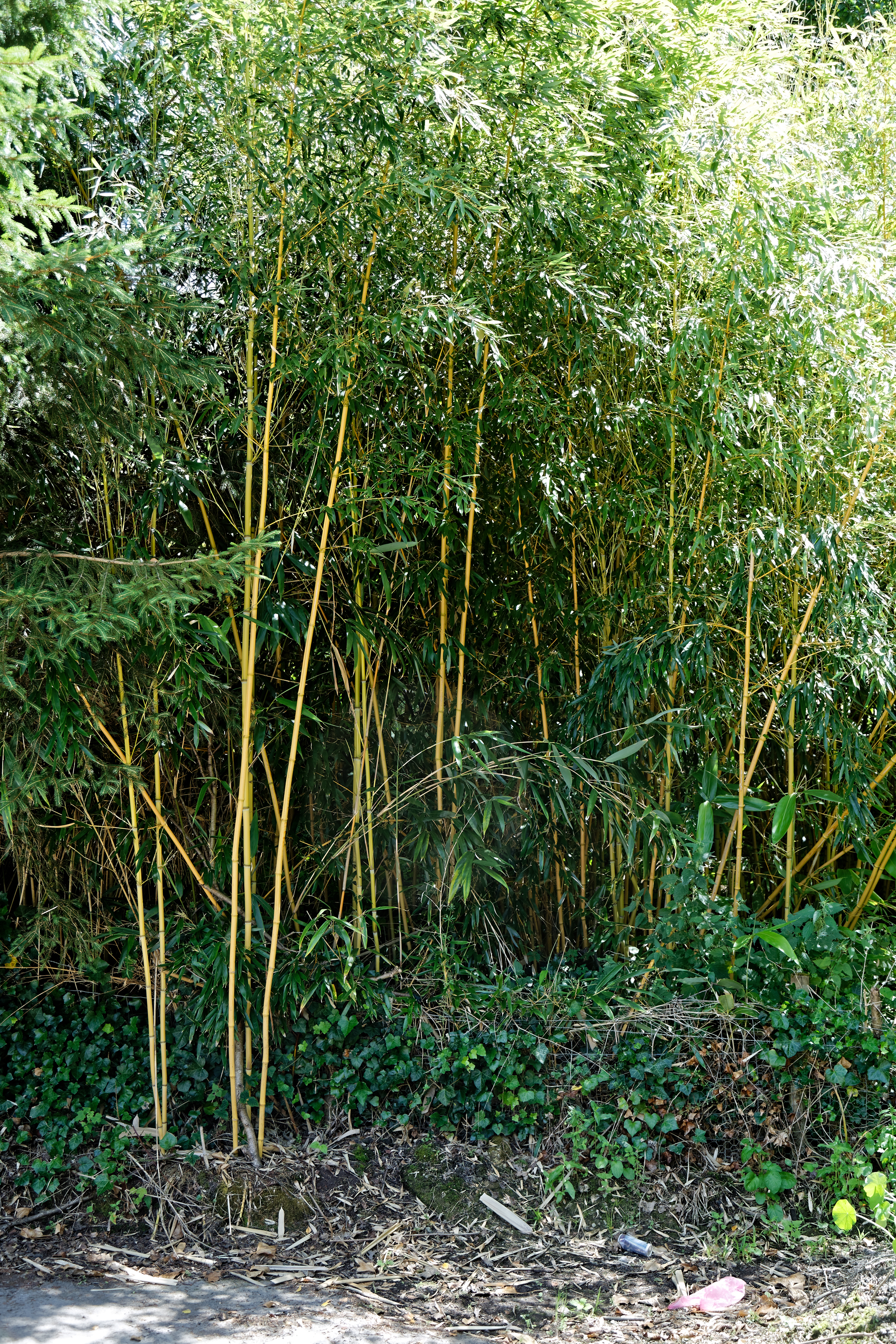 A clump of bamboo on Nuthurst Street on Nuthurst Street in Nuthurst village, West Sussex, England. Camera: Canon EOS 6D with Canon EF 24-105mm F4L IS USM lens. Software: RAW file lens-corrected and optimized with DxO OpticsPro 11 Elite and Viewpoint 2, and further optimized with Adobe Photoshop CS2.